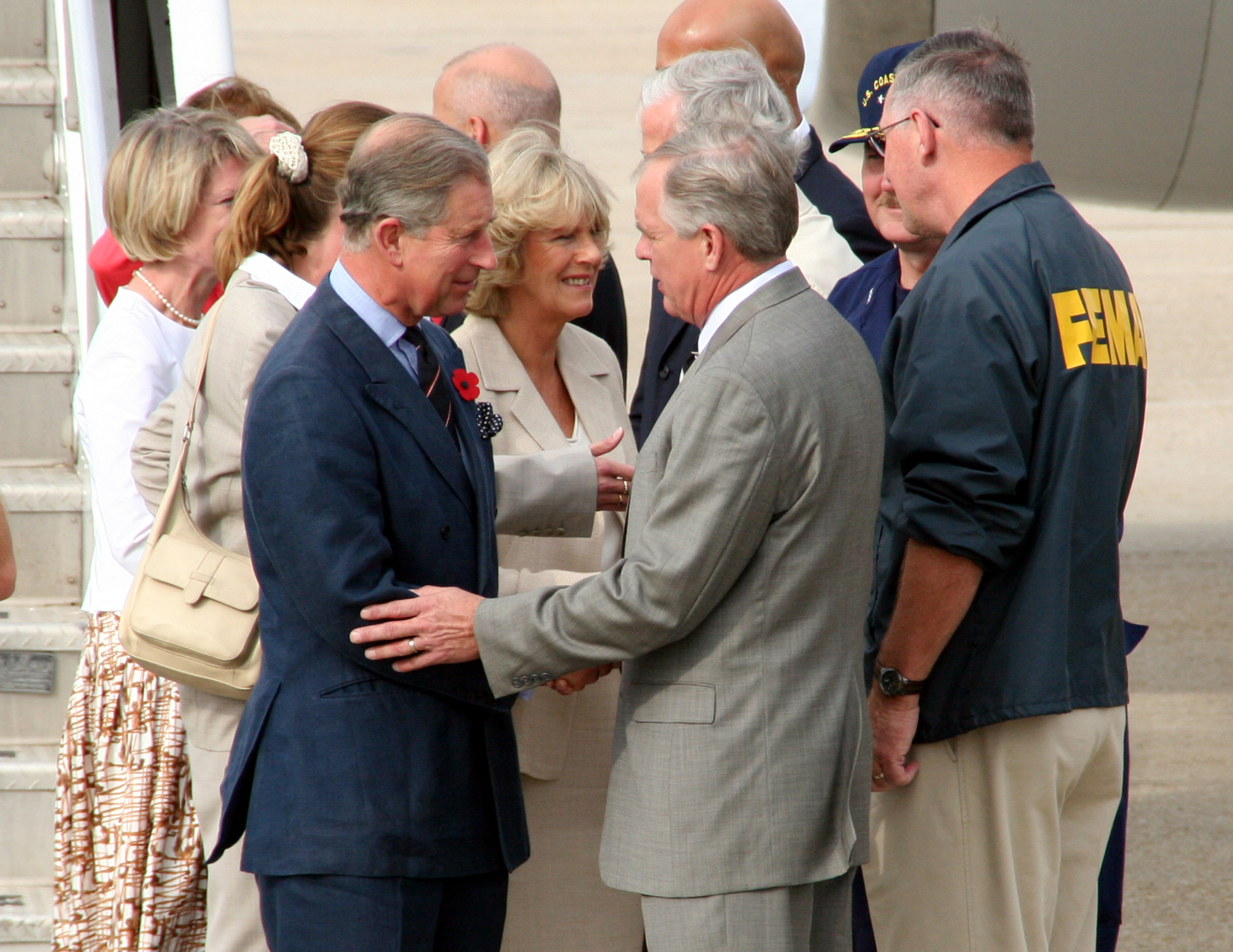 New Orleans, LA, November 5, 2005 - Prince Charles and Camilla greet FEMA officials as they arrive to tour the damages created by Hurricane Katrina in New Orleans. Robert Kaufmann/FEMA